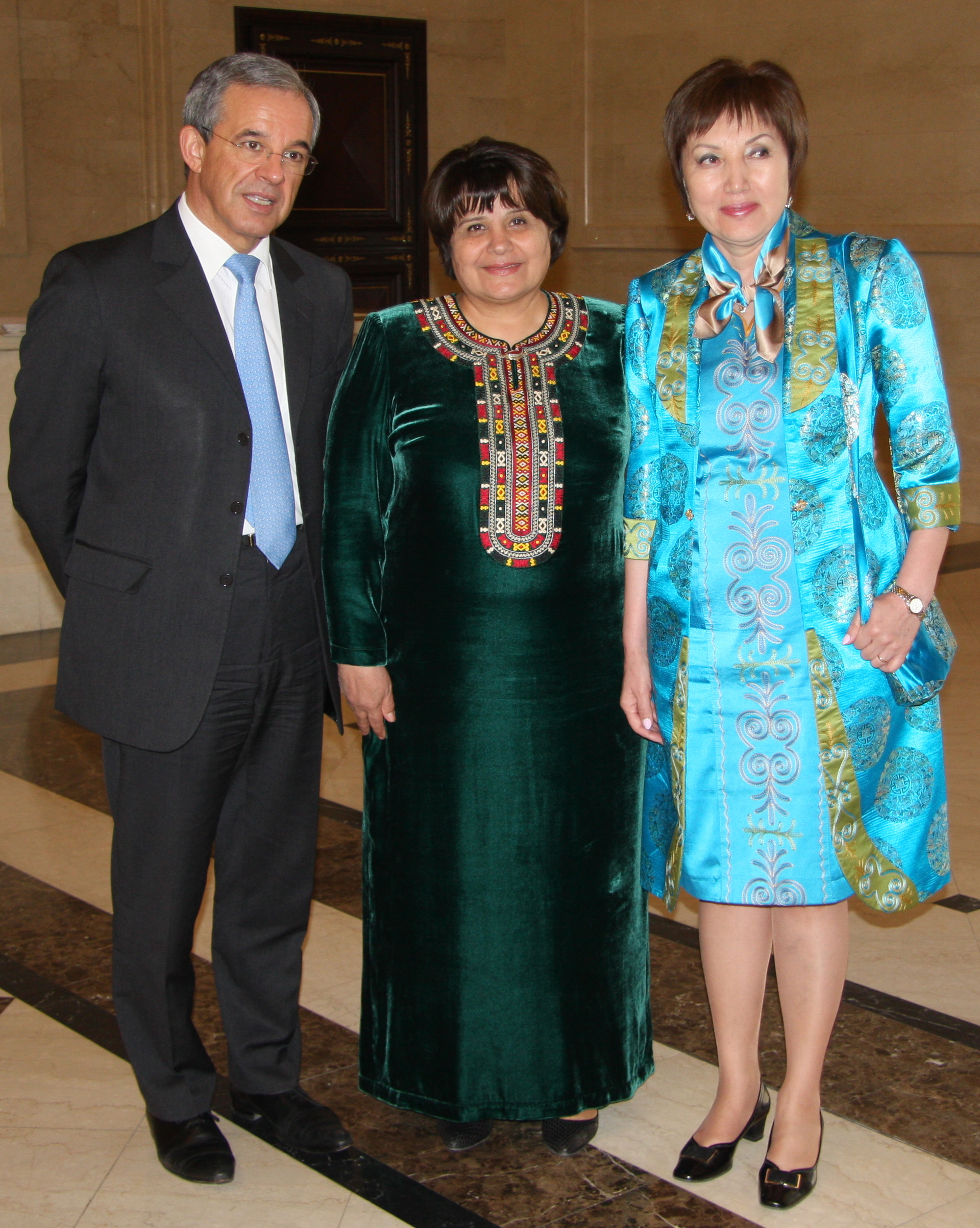 OSCE Parliamentary Assembly-Centre in Ashgabat seminar for Turkmen MPs on PA involvement (14-15 April 2015): OSCE PA Special Representative for Central Asia Thierry Mariani; Akjda Nurberdiyeva, Chairperson of the Mejlis of Turkmenistan; Roza Aknazarova, Сhairperson of the OSCE PA's Committee on Economic Affairs, Science, Technology and Environment (left to right)